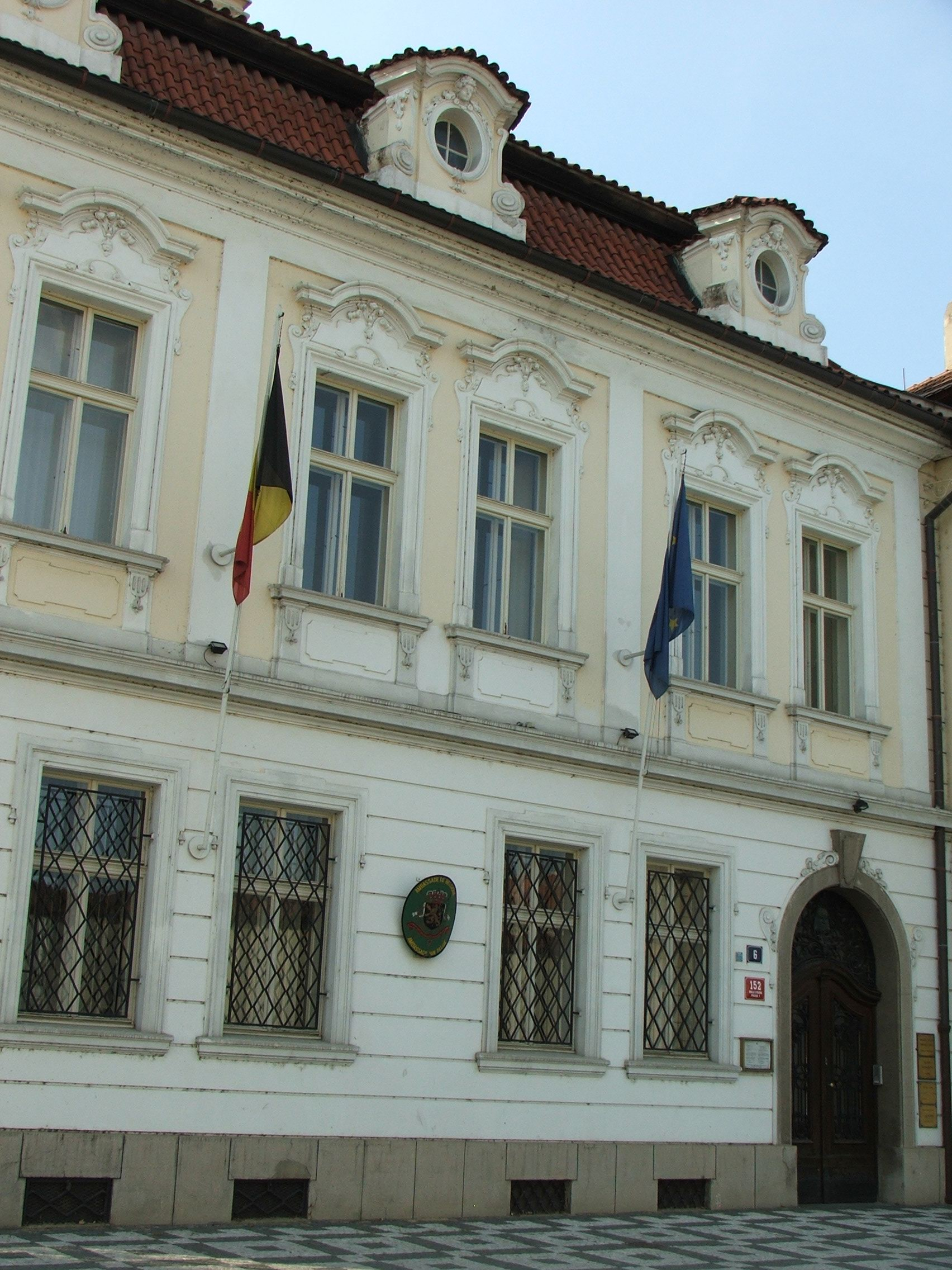 Embassy of Belgium in Prague - Malá Strana, Czechia